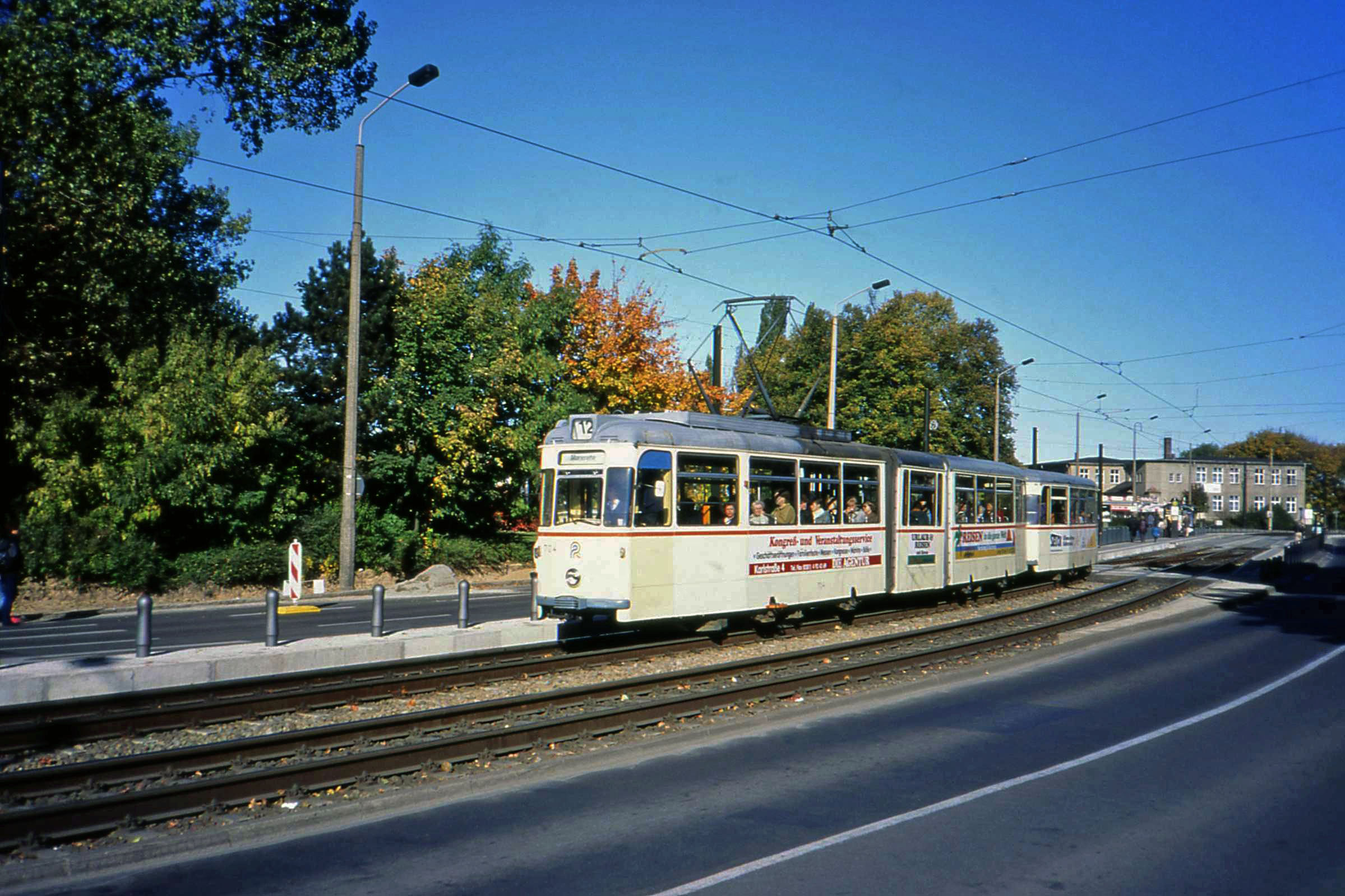 Gothawagen G 4-61 704 with trailer on route 12 on Rostock, Germany.